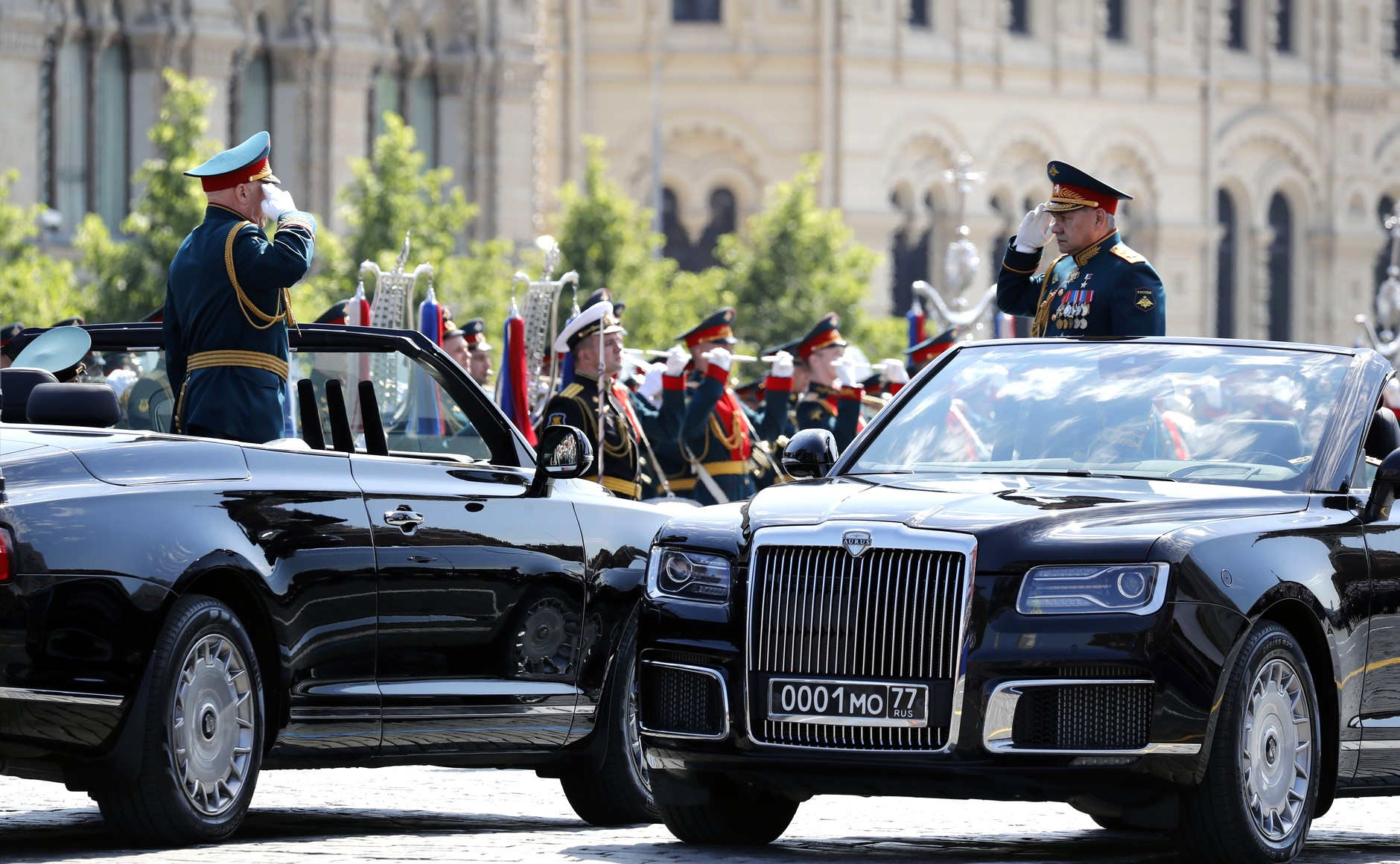 2020 Moscow Victory Day Parade Аҧсшәа: Военный парад на Красной площади в Москве 24 июня 2020 года